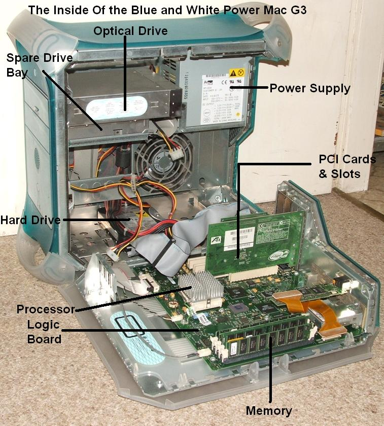 A photo labeling the inside parts of the Blue and White power Mac G3.